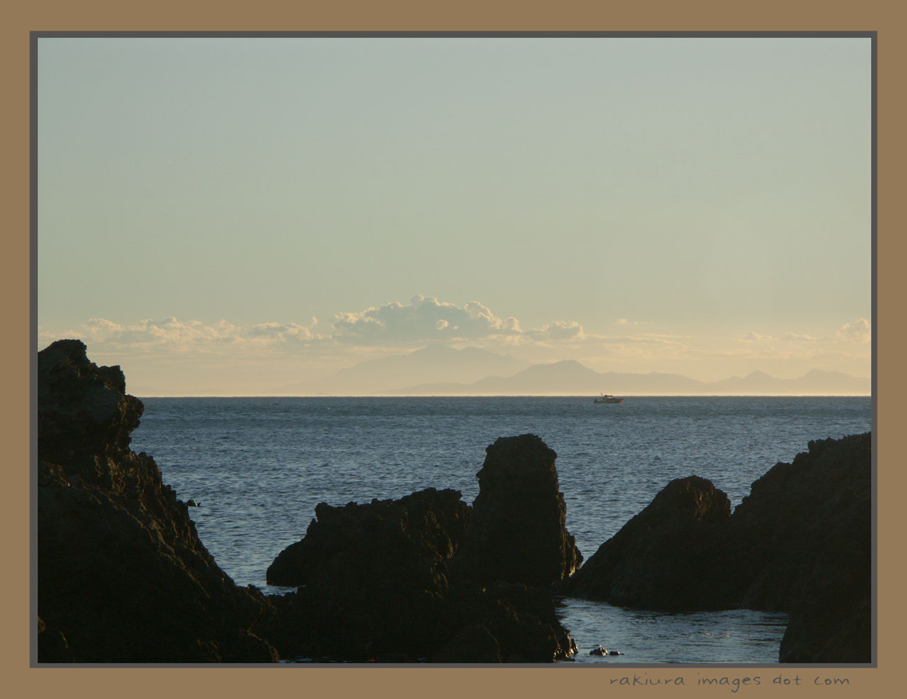 TeRaekaihauRockPool19.jpg - photo taken and uploaded by Paul Moss, Photographer, Artist, Paul Moss Photographer Artist NZ